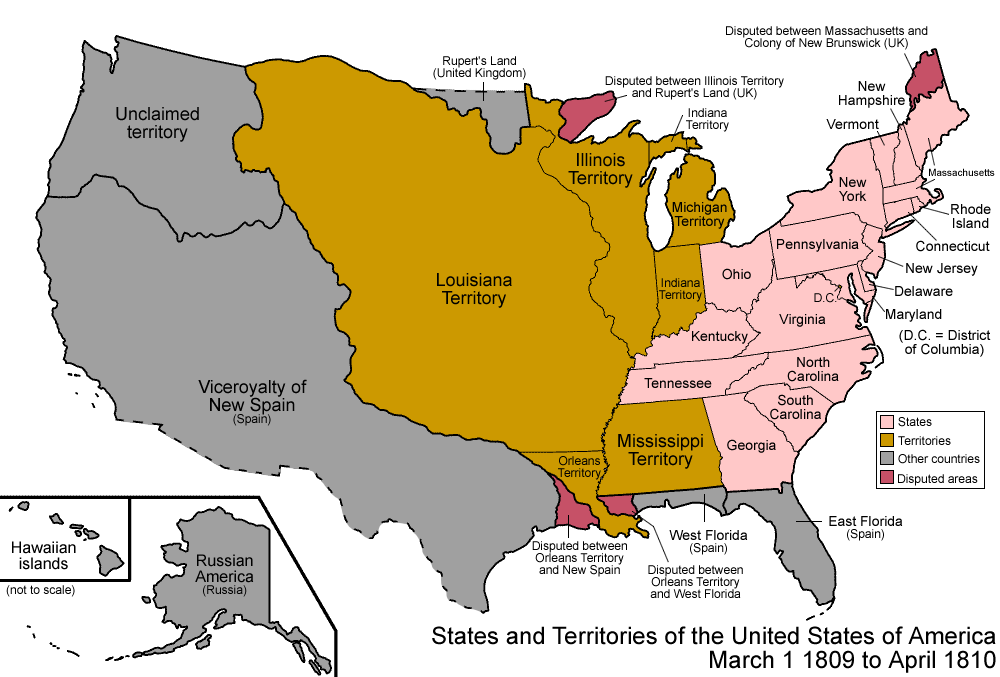 Map of the states and territories of the United States as it was from 1809 to April 1810. On March 1 1809, Illinois Territory was split from Indiana Territory. In April 1810, the Kingdom of Hawaii was unified.